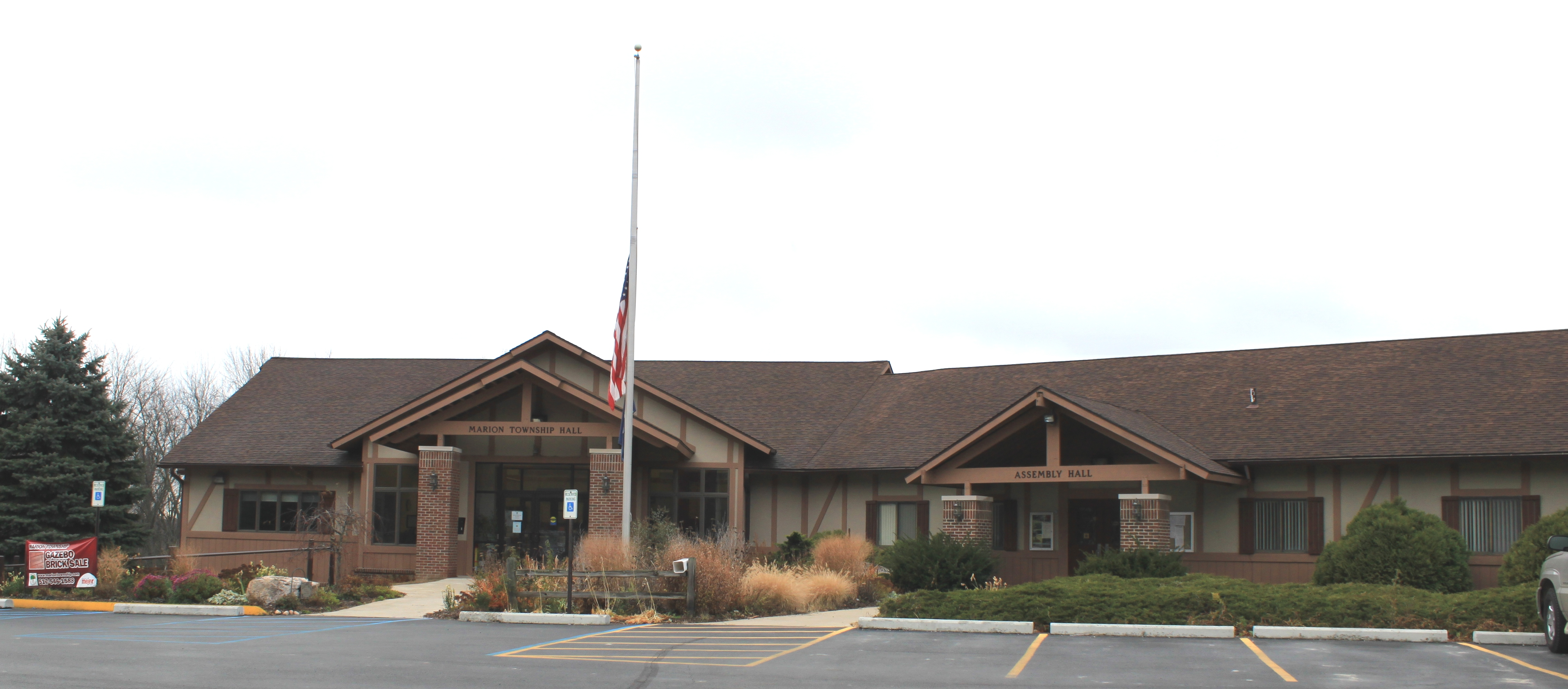 Marion Township Hall, 2877 West Coon Lake Road, Livingston County, Michigan